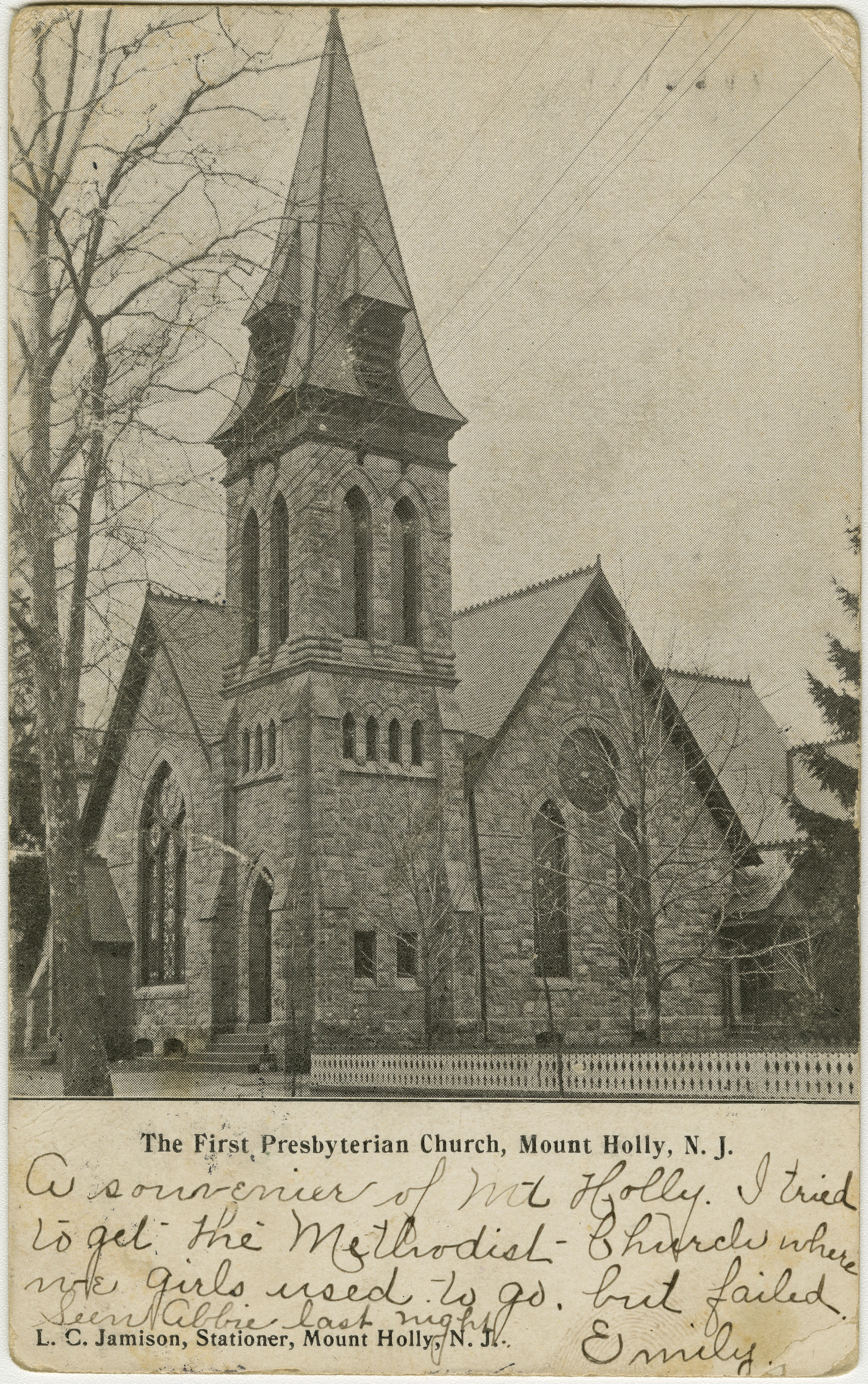 First Presbyterian Church in Mt. Holly, New Jersey from a pre-1923 postcard From RG 428, Postcard Collection, Presbyterian Historical Society, Philadelphia, Pennsylvania.